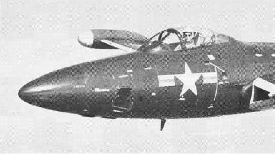 Closeup of a Grumman F9F-5P Panther reconnaissance plane in flight.